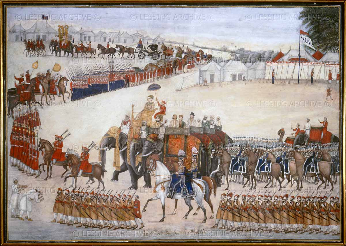 a watercolour depicting the procession of the Nawab of Rampur Yusef Ali Khan and his family on elephants scorted by Rampurian and British troops to the encampment of Lord Canning